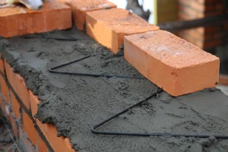 Использование гибкой связи "Зиг-заг"